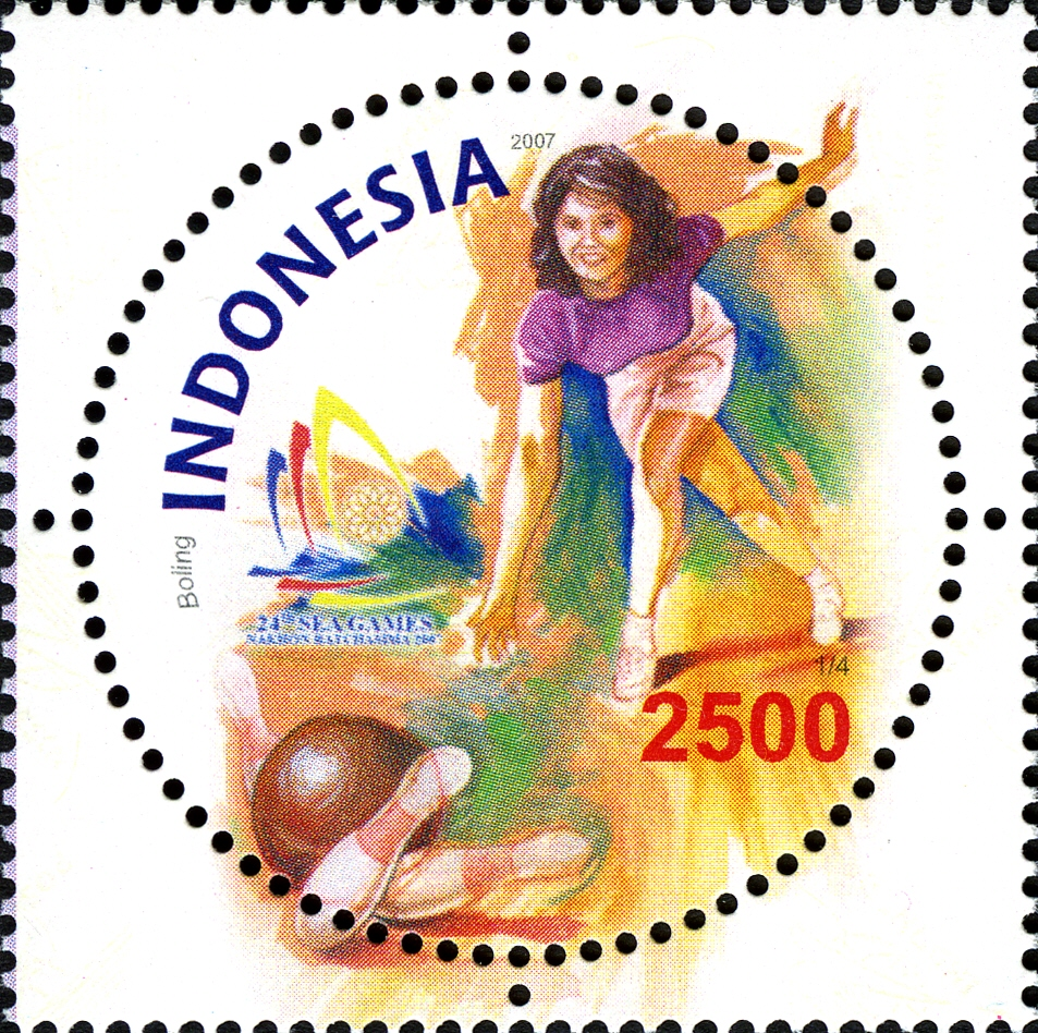 Stamps of Indonesia